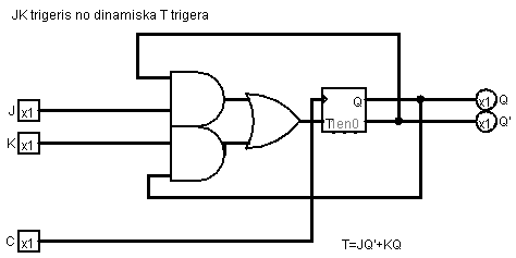 DtoT